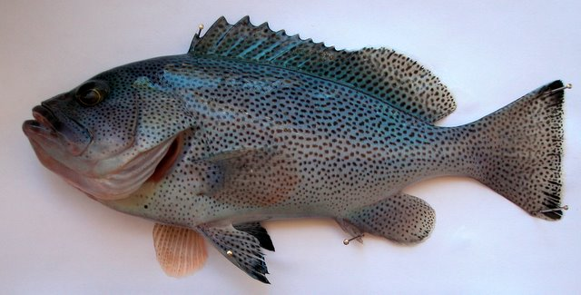 Epinephelus cyanopodus. Locality: Baie Maa, near Nouméa, New Caledonia. Fork length: 195 mm. Weight: 130 grams. Date: 2007/11/13.